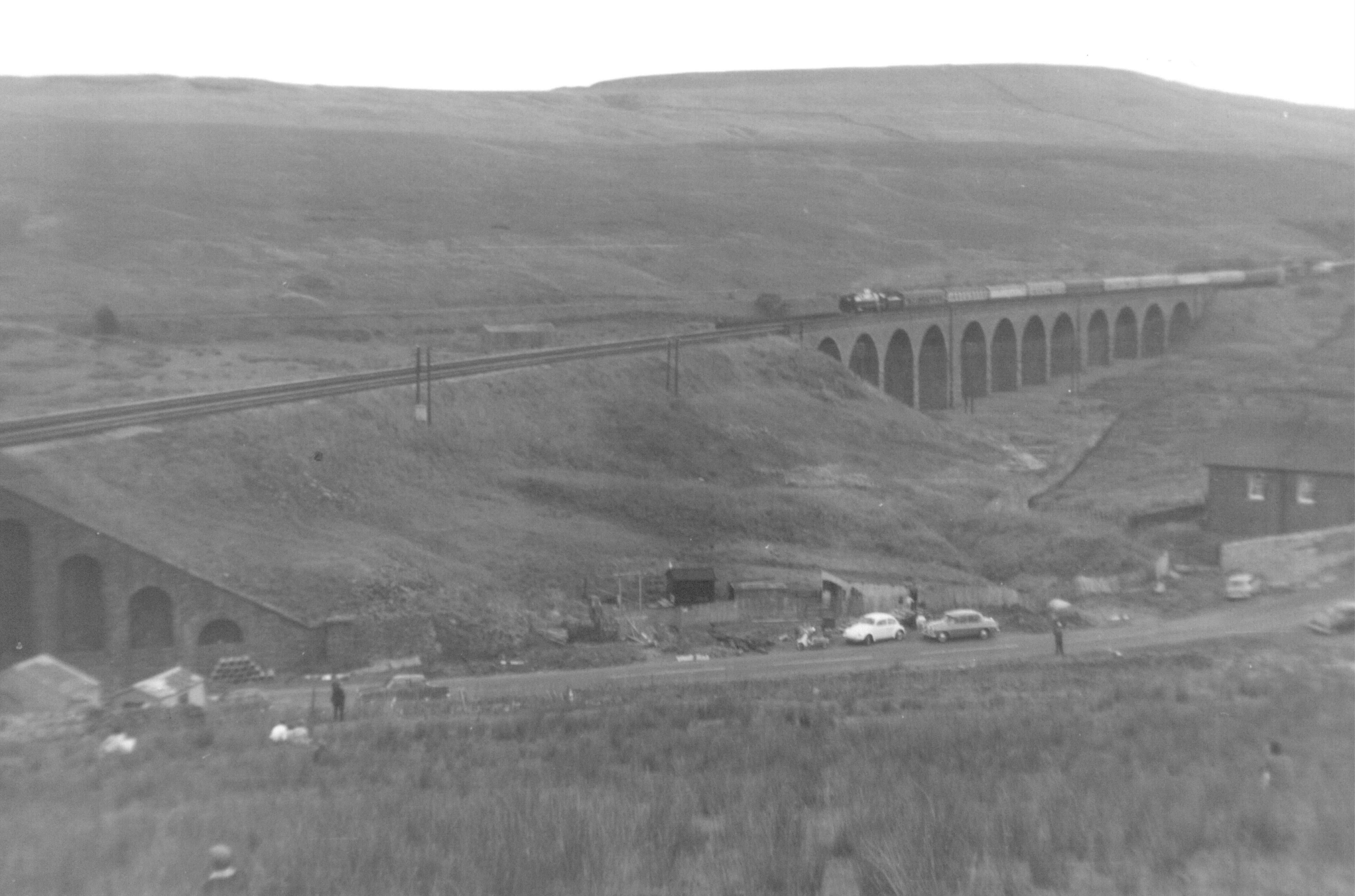 Scanned from print, negative long lost. Taken on Coronet Clipper 120 camera.